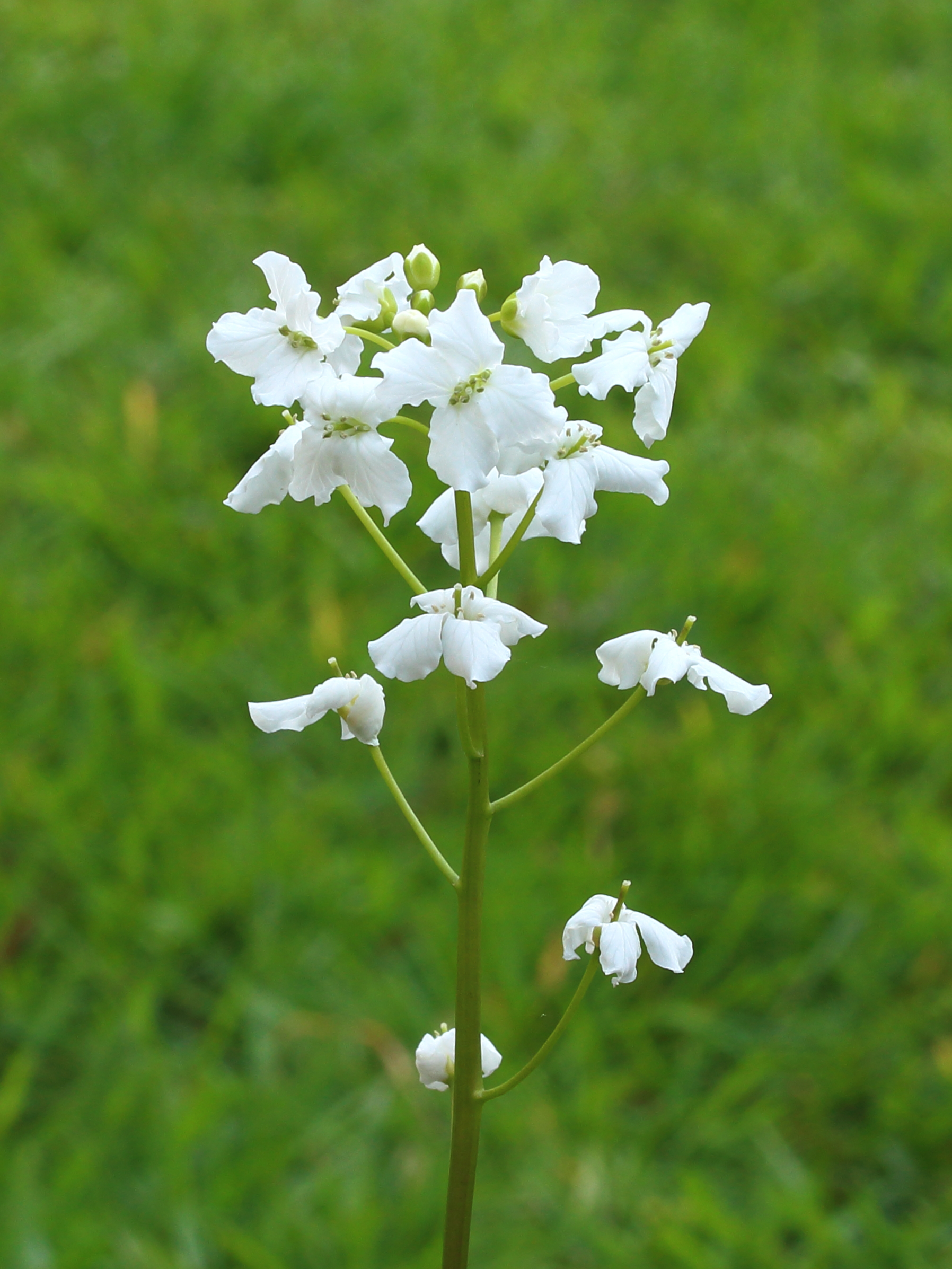 Cardamine trifolia. Valuable evergreen ground cover.